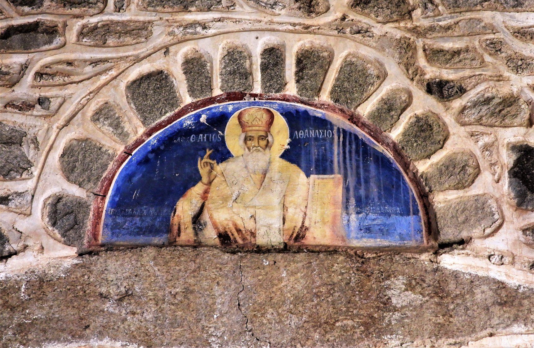 Fresco from St. Athanasius in Antartiko, Florina